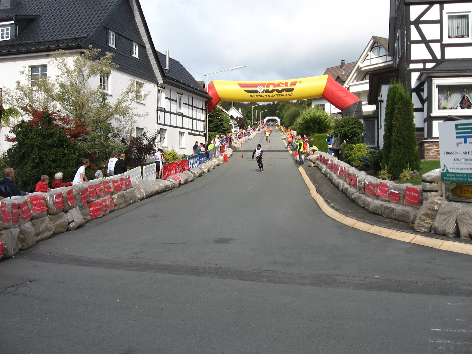 Läufer bei ersten Lauf des Parallelslalom bei der Inline-Alpin-Weltmeisterschaften 2014 in Kirchhundem-Oberhundem.